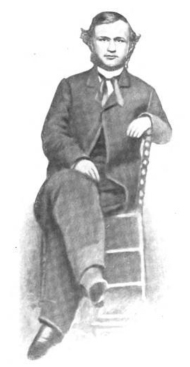 Thomas M. Carnegie at the age of 19 in 1862. Carnegie was the younger brother of industrialist Andrew Carnegie, and a noted corporate manager, industrialist, financier, and art patron in his own right.